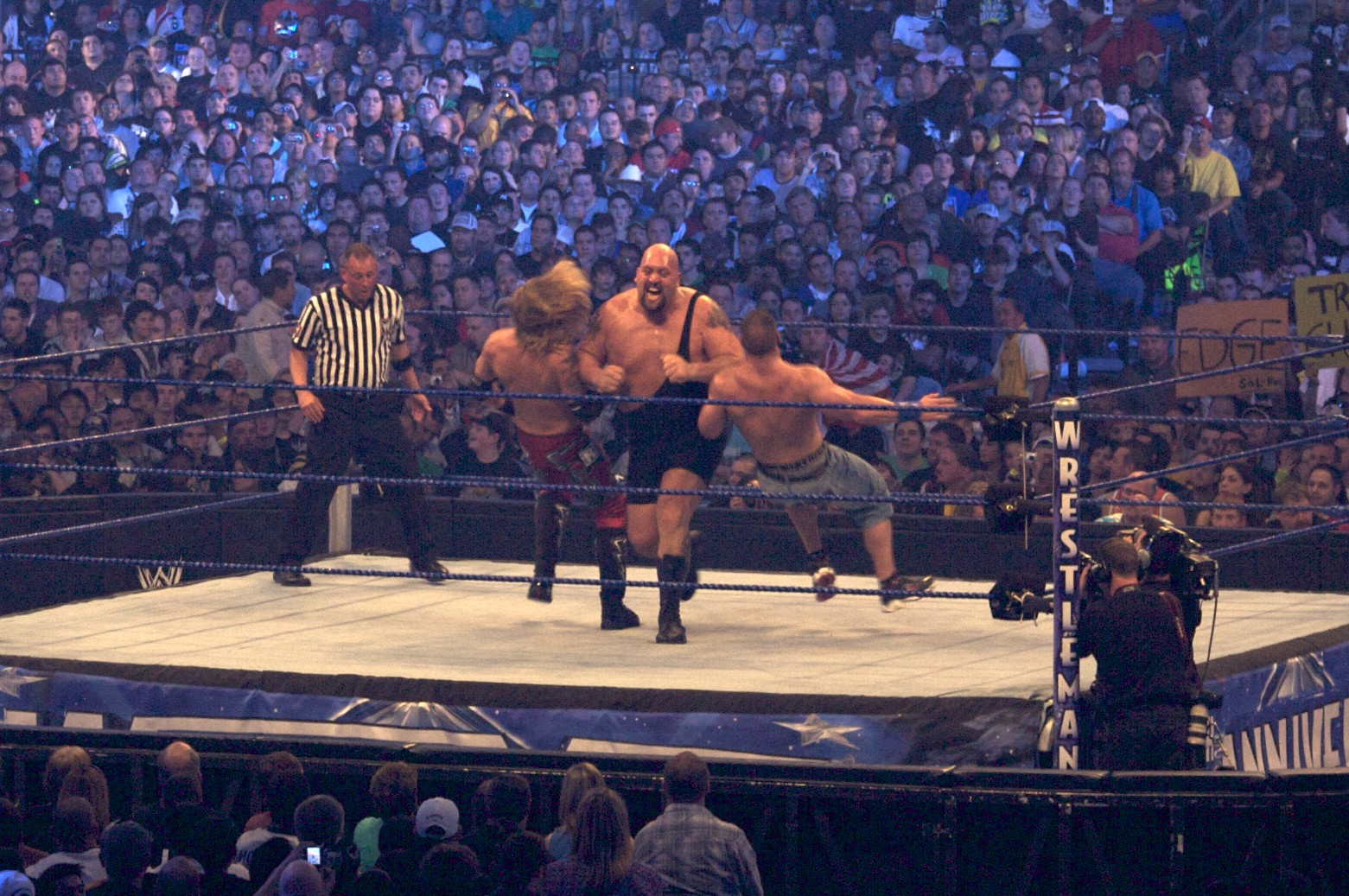 Wrestlemania 25 at Reliant Park in Houston Texas 2009